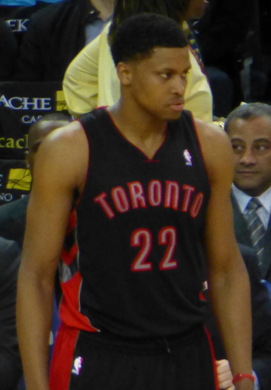 Rudy Gay, Toronto Raptors at Golden State Warriors March 4, 2013